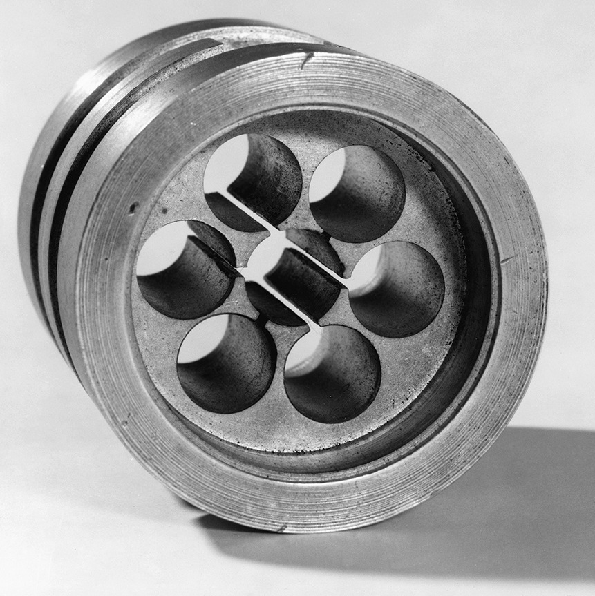 Microwave cavities in original cavity magnetron tube, developed by John Randall (1905-1984) and Harry Boot (1917-1983) at Birmingham University in 1940. This was contained inside a vacuum tube. A heated cathode extended up the central axis, which emitted electrons, and a permanent magnet embracing the tube created a magnetic field along the axis of the tube. The magnetic field caused the electrons to circle in bunches within the central cavity of the tube, inducing microwave oscillations in the 6 peripheral cylindrical cavities. The cavity magnetron was the first practical device for producing power at centimeter wavelengths. It enabled the development of radars that could produce clear images of distant objects by bouncing microwaves off their targets. These played a significant role in World War 2. Please note: this image has not been fully finished.